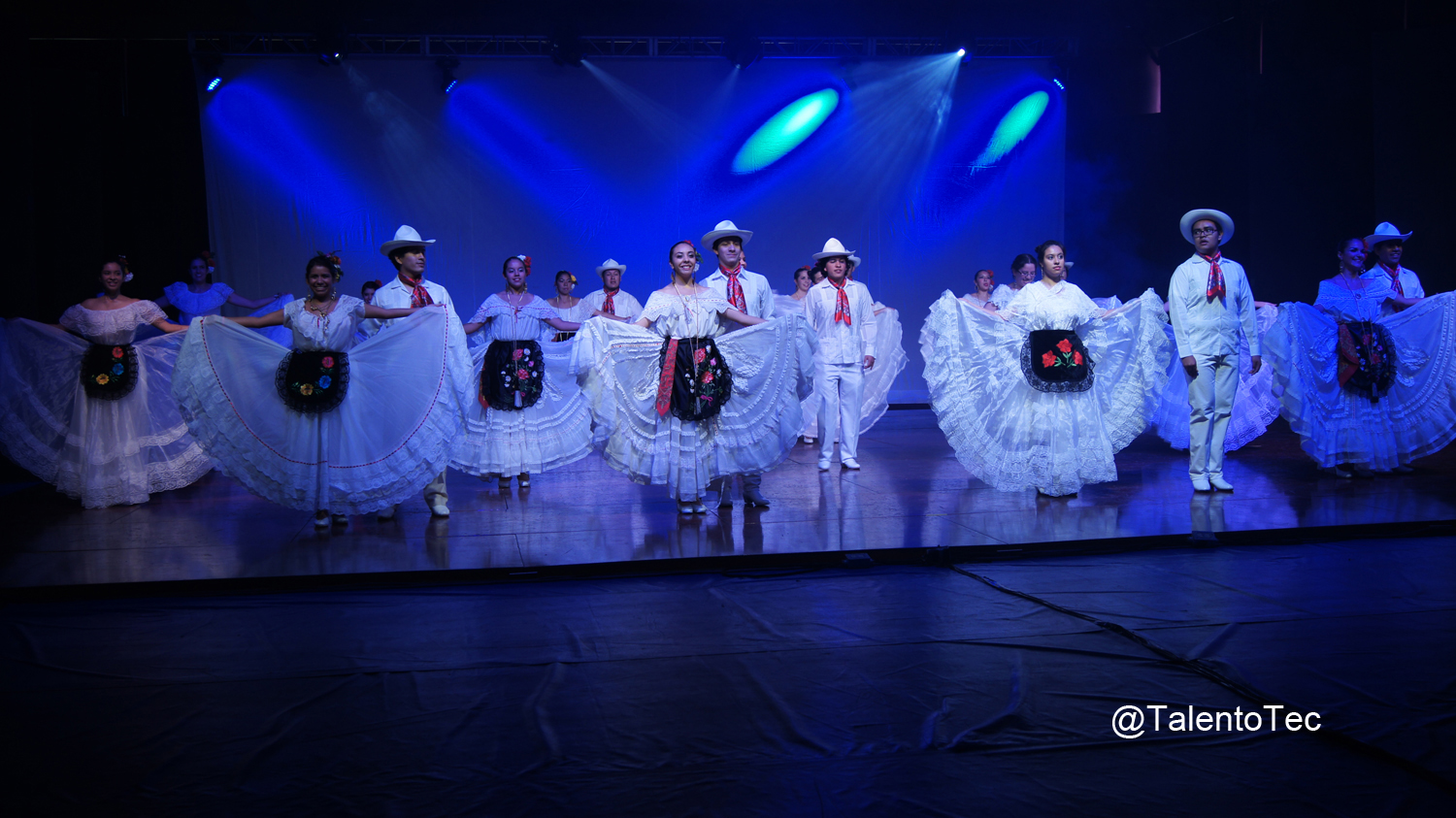 Student performers of Folk Dance at "Semana de la cutura" in ITESM CCM.